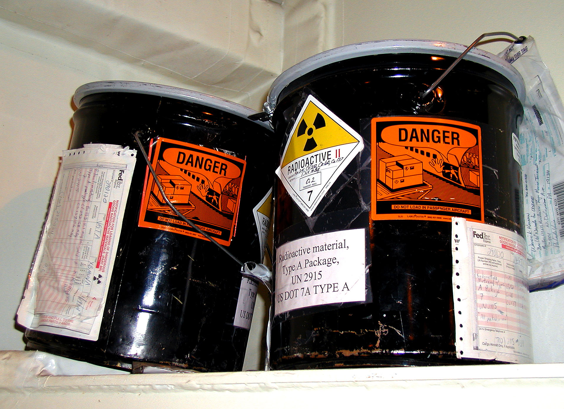 Five-gallon containers hold radioactive source material used during equipment testing onboard USNS Seay.